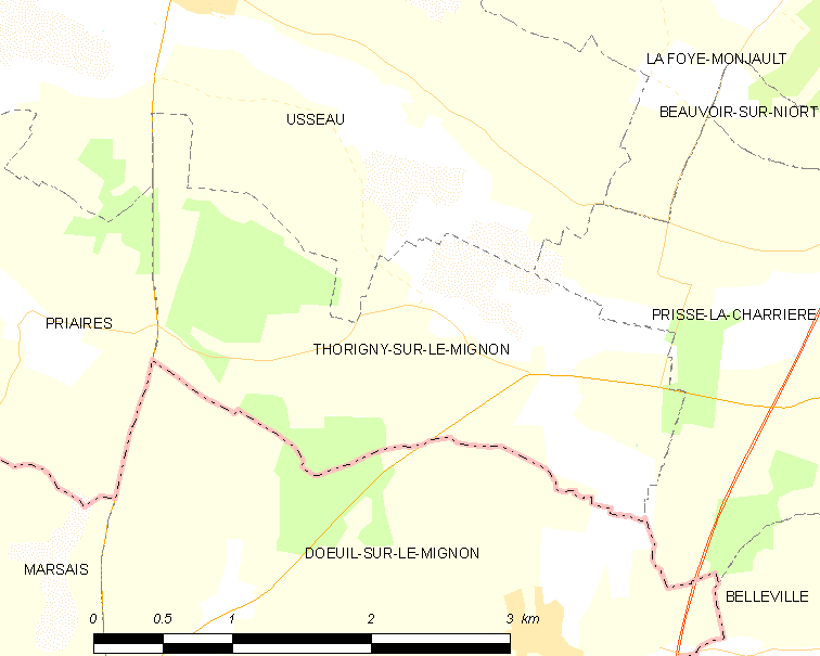 Map of French municipality Thorigny-sur-le-Mignon